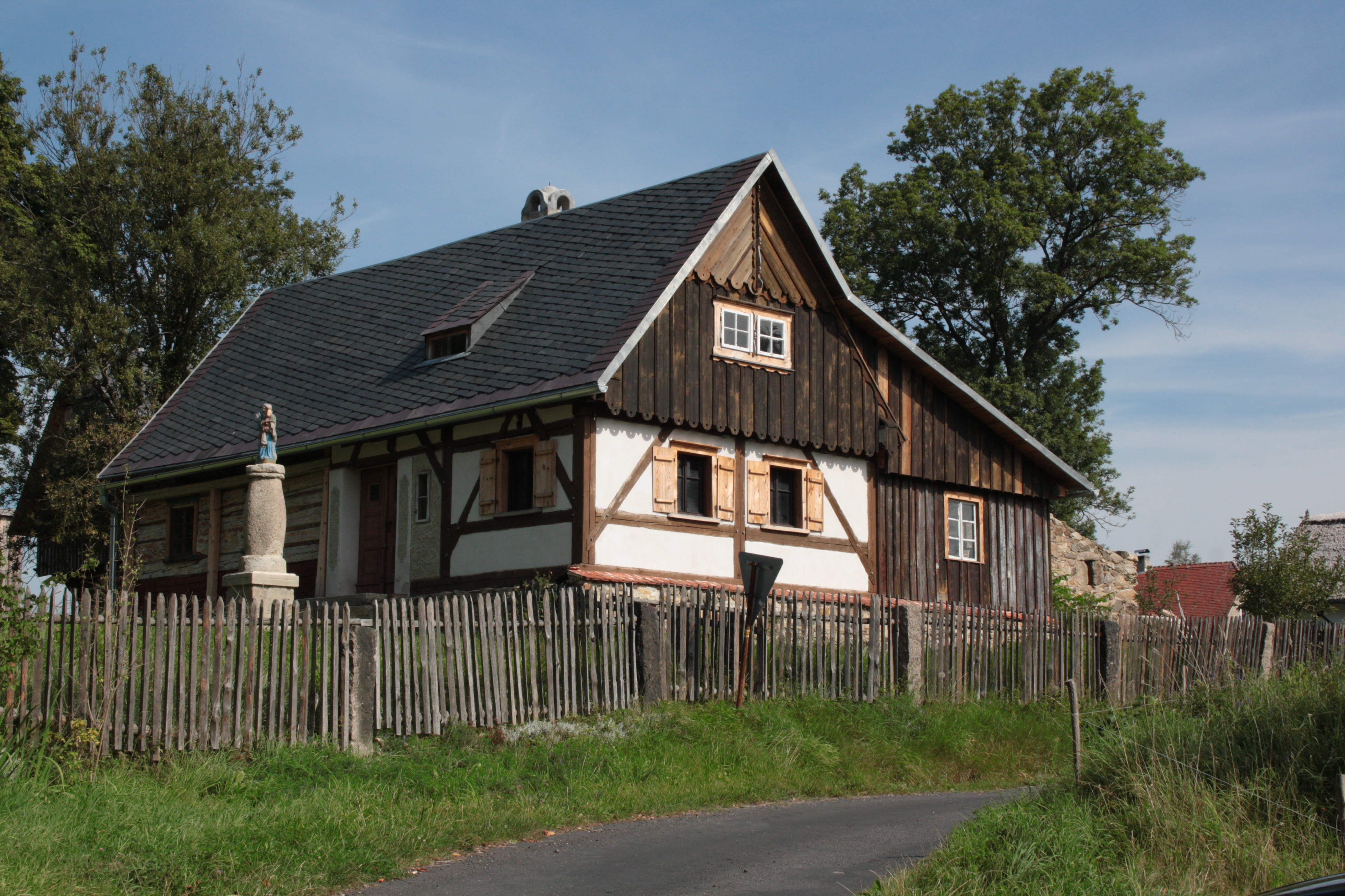 This photograph was taken with a DSLR from WMCZ's Camera grant. Roubený dům v Dolní Řasnici v okrese Liberec.